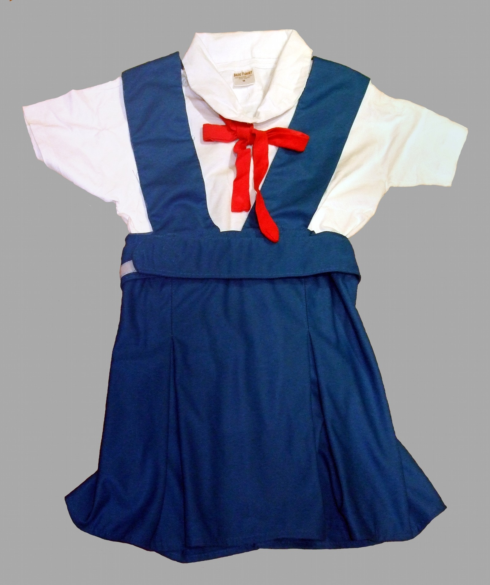 School uniform of Asuka and Rei from Neon Genesis Evangelion